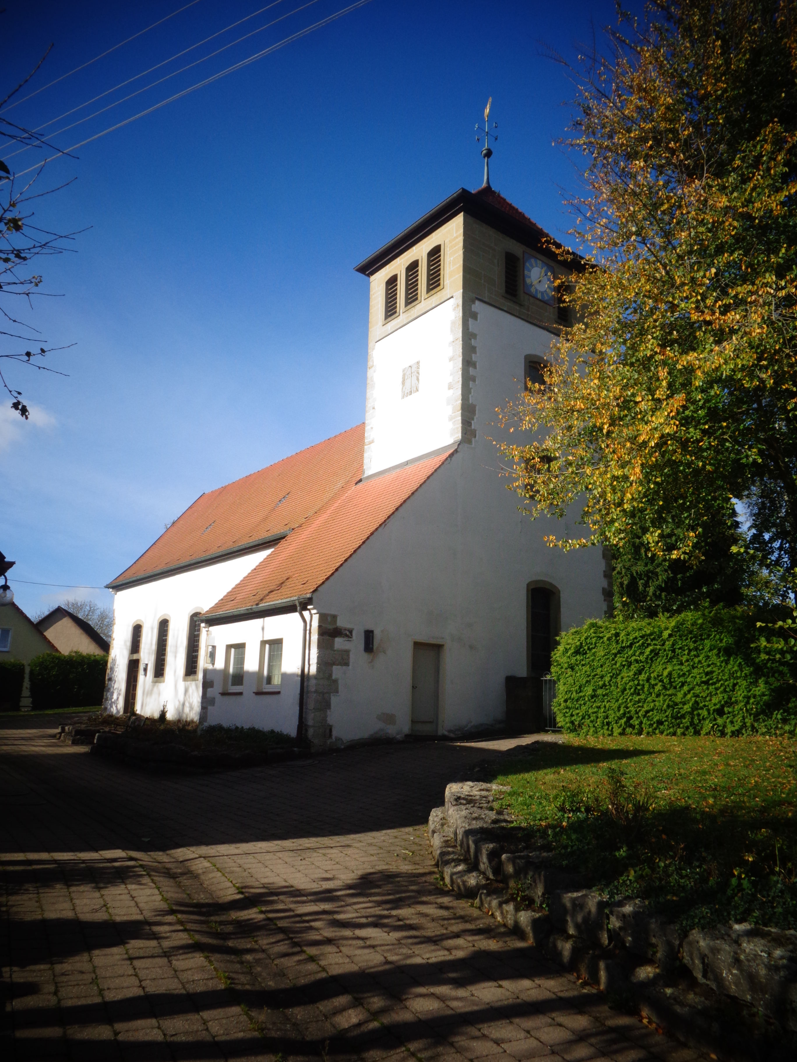 Church, Jungholzhausen, Germany 2017